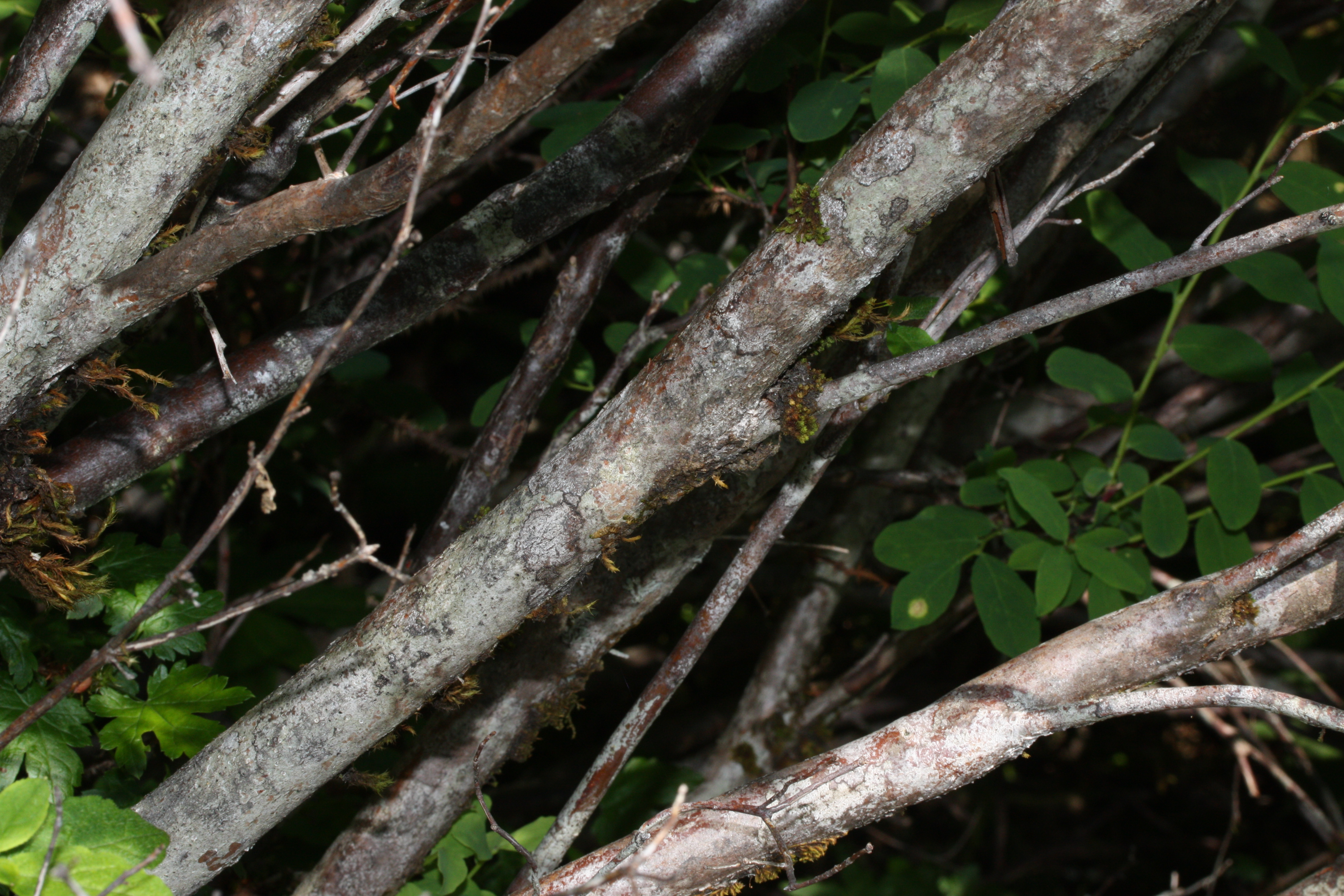 False Azalea, Fool's-huckleberry, Rusty Menziesia